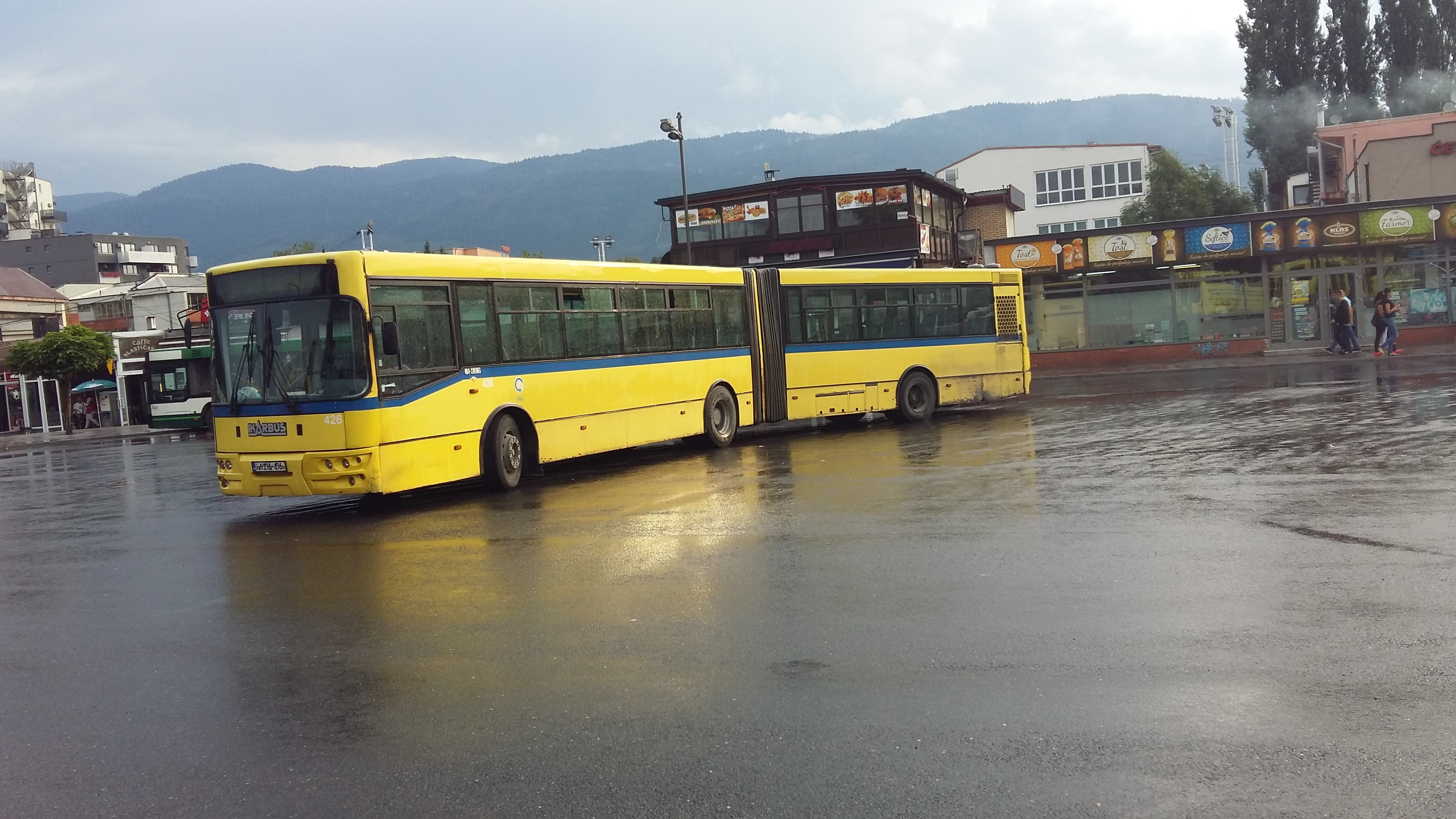 An Ikarbus IK-206 of the sarajevo-transport company JKP GRAS.